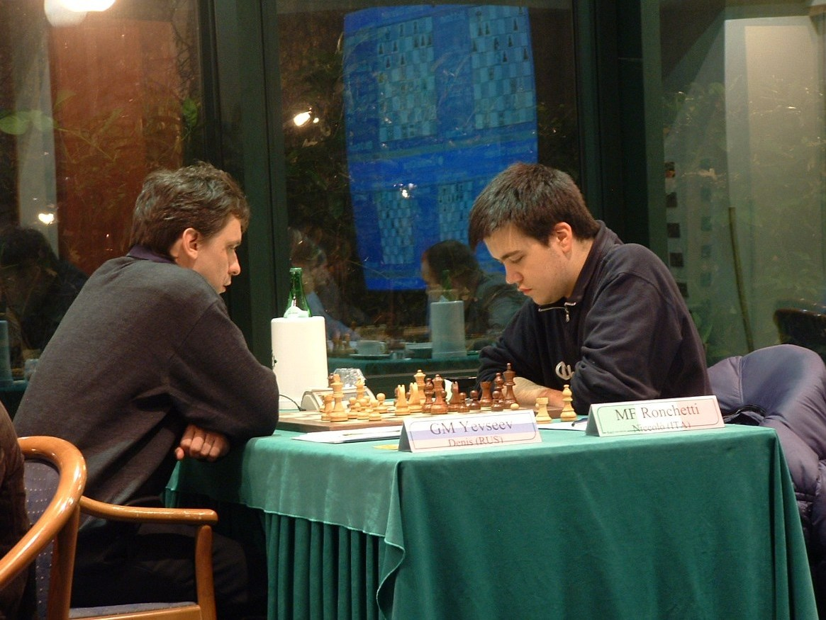 Game Yevseev-Ronchetti at 46th Reggio Emilia tournament